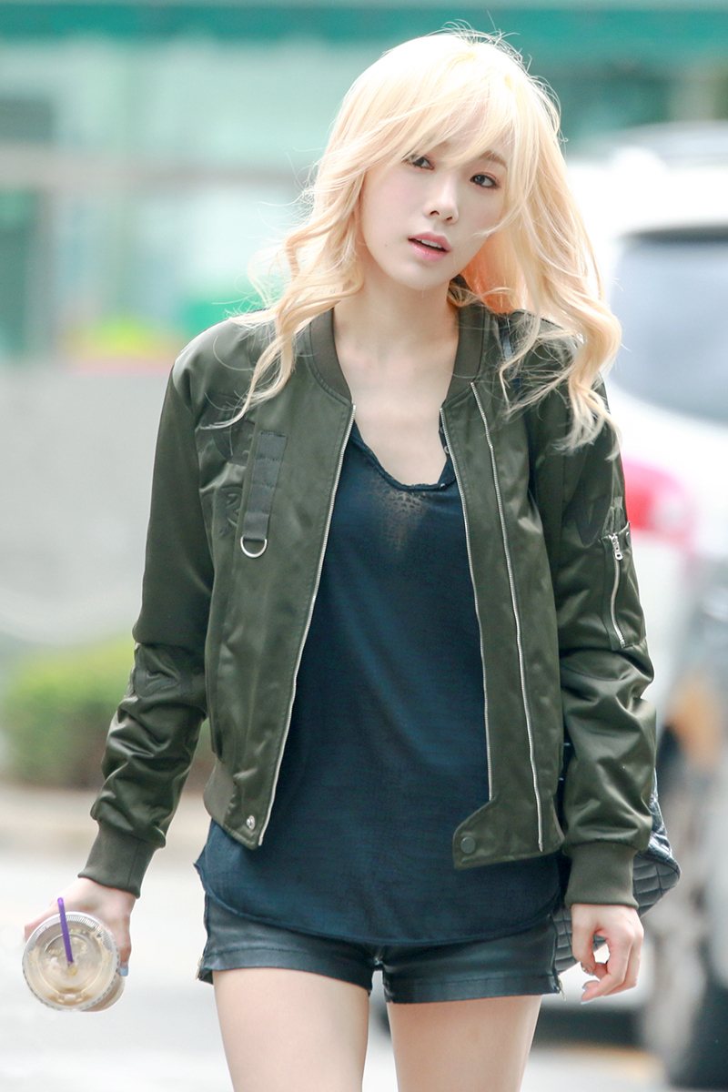 Taeyeon at KBS Music Bank 11, 2015